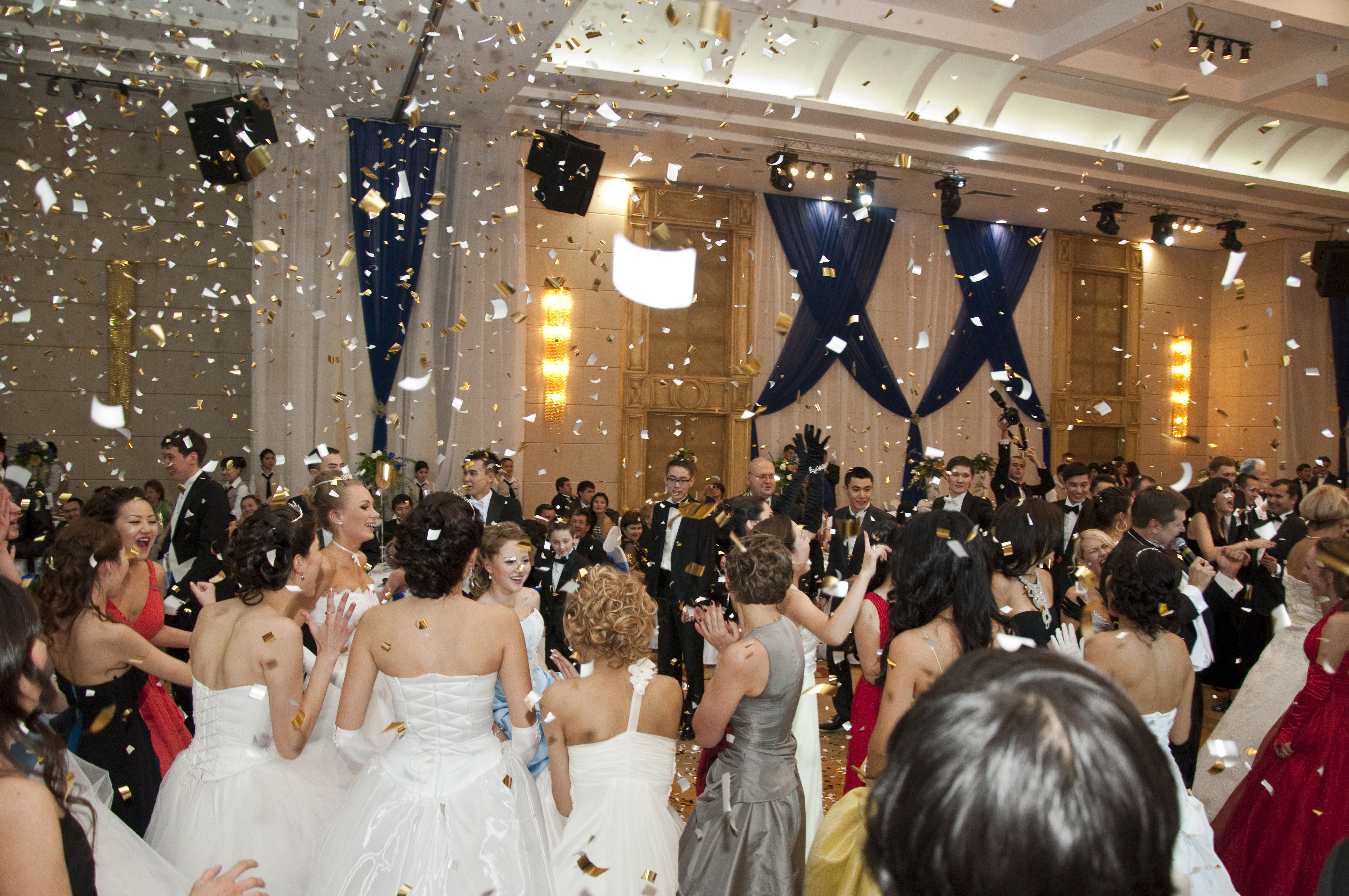 Charity Ball in Almaty